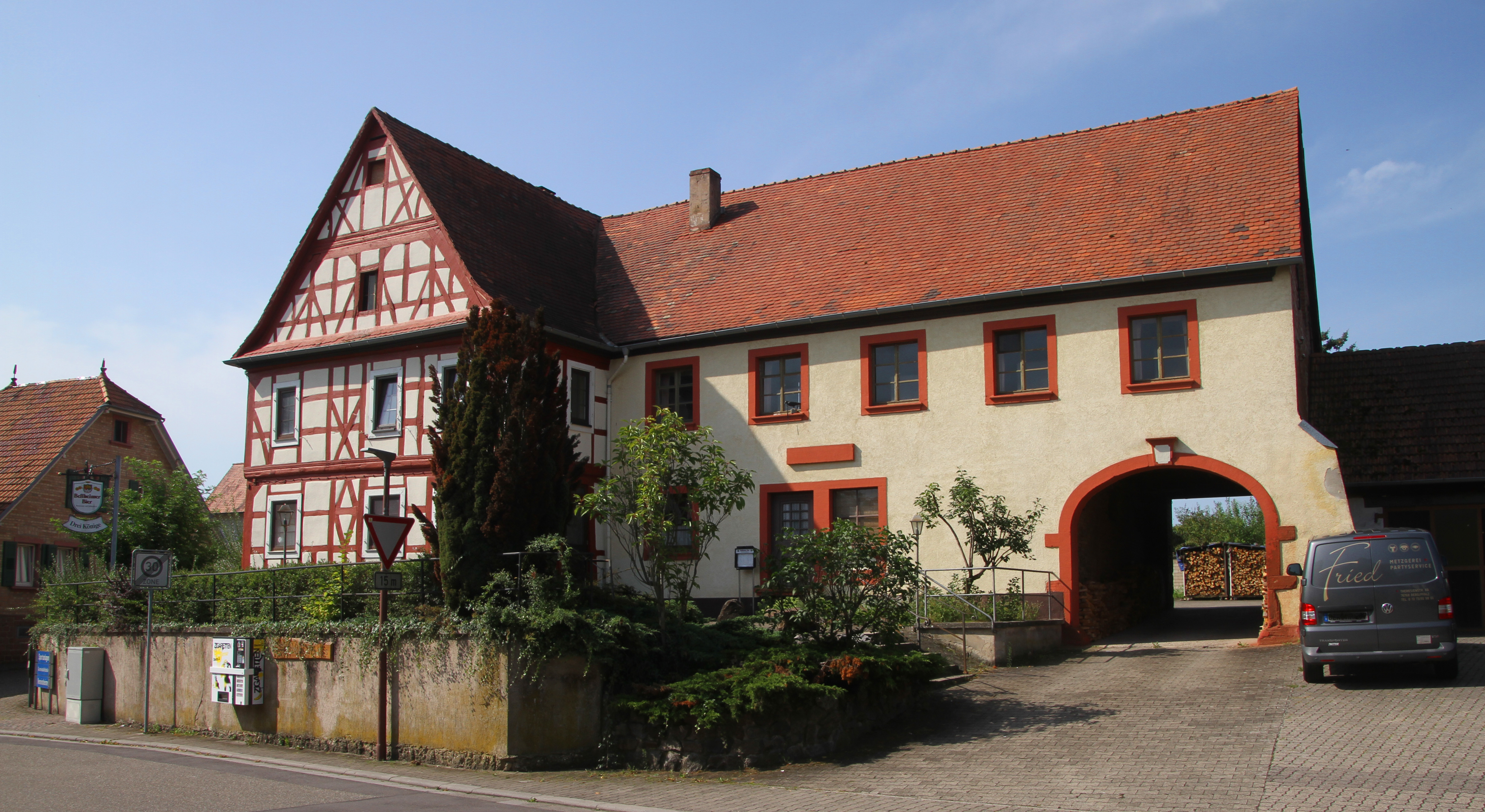 Cultural heritage monument in Berg (Pfalz)